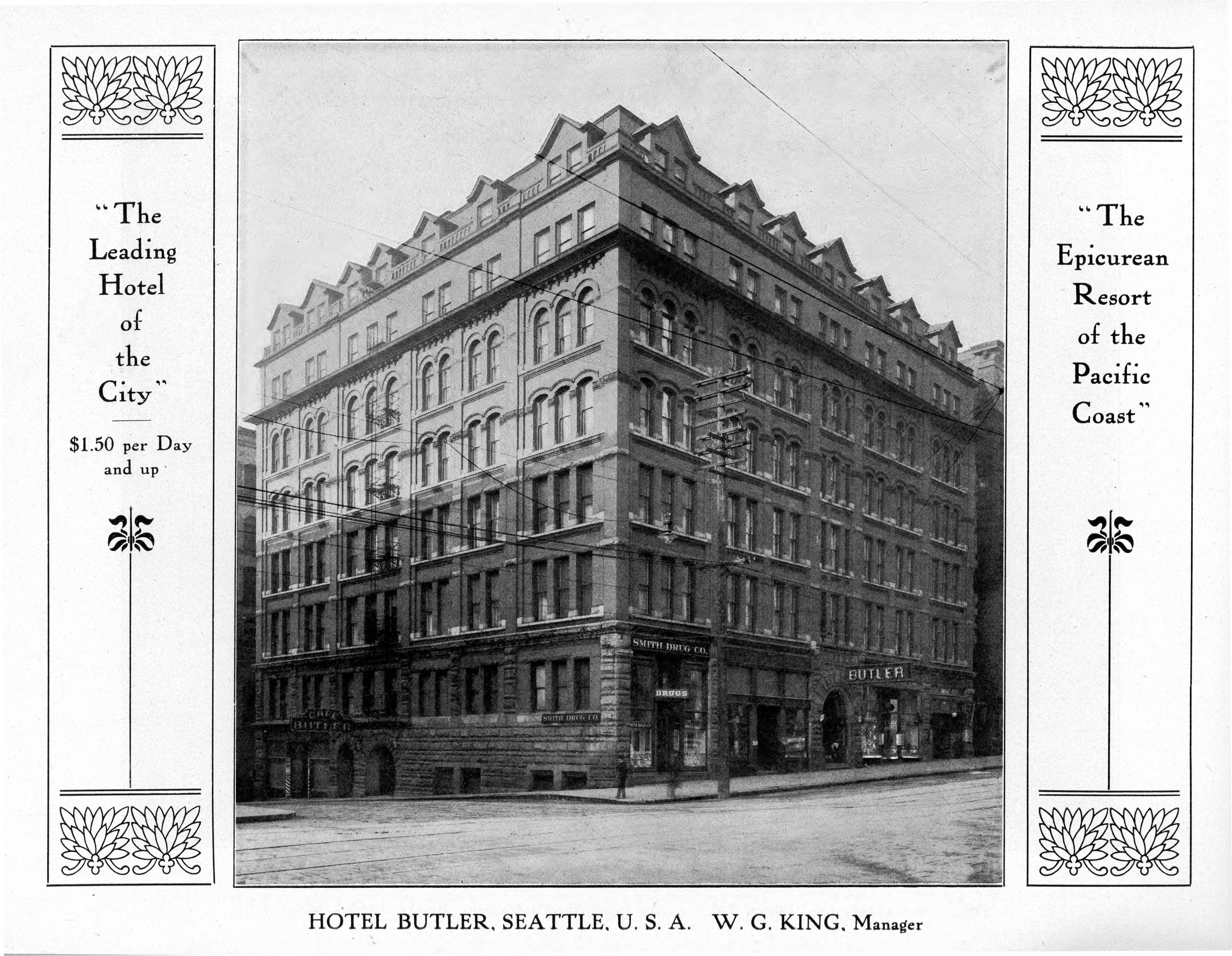 From the materials for the Alaska-Yukon-Pacific Exposition of 1909, held in Seattle. Ad for the Hotel Butler, Seattle. Two stories were added in 1903: see File:Seattle - Hotel Butler - 1900.jpg.